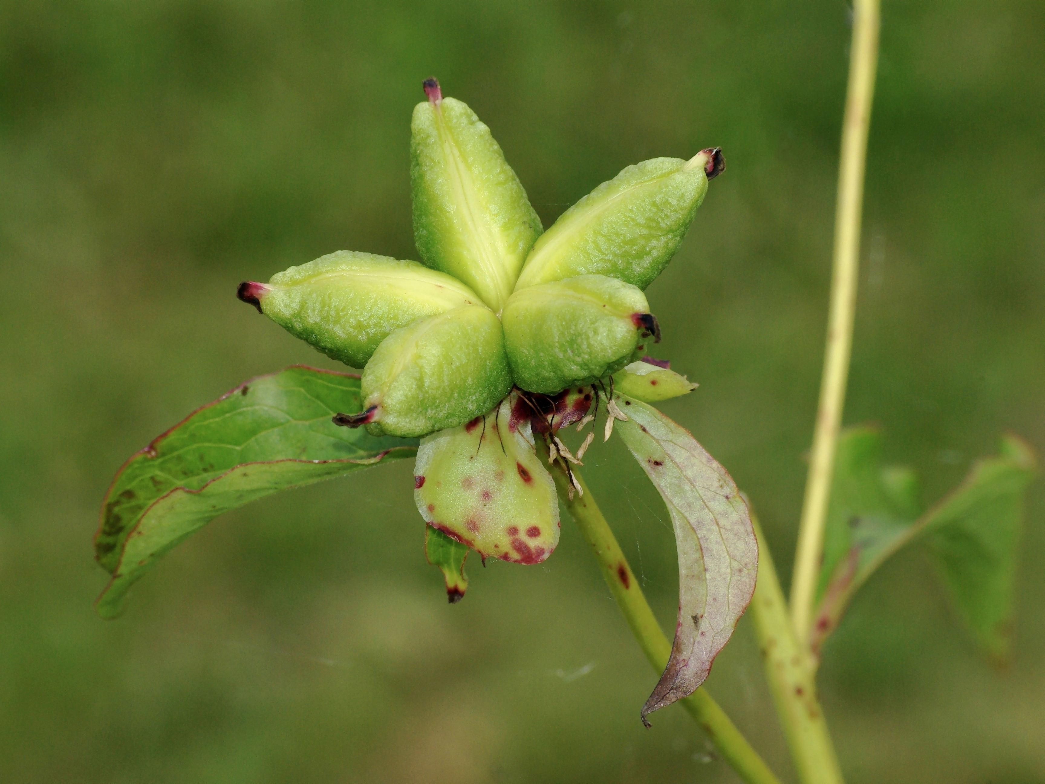 Chinese peony (Paeonia lactiflora) : fruit, garden,France.